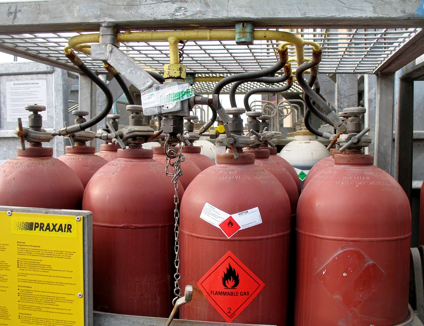 Array of acetylene gas cylinders at a construction site in Cologne, Germany